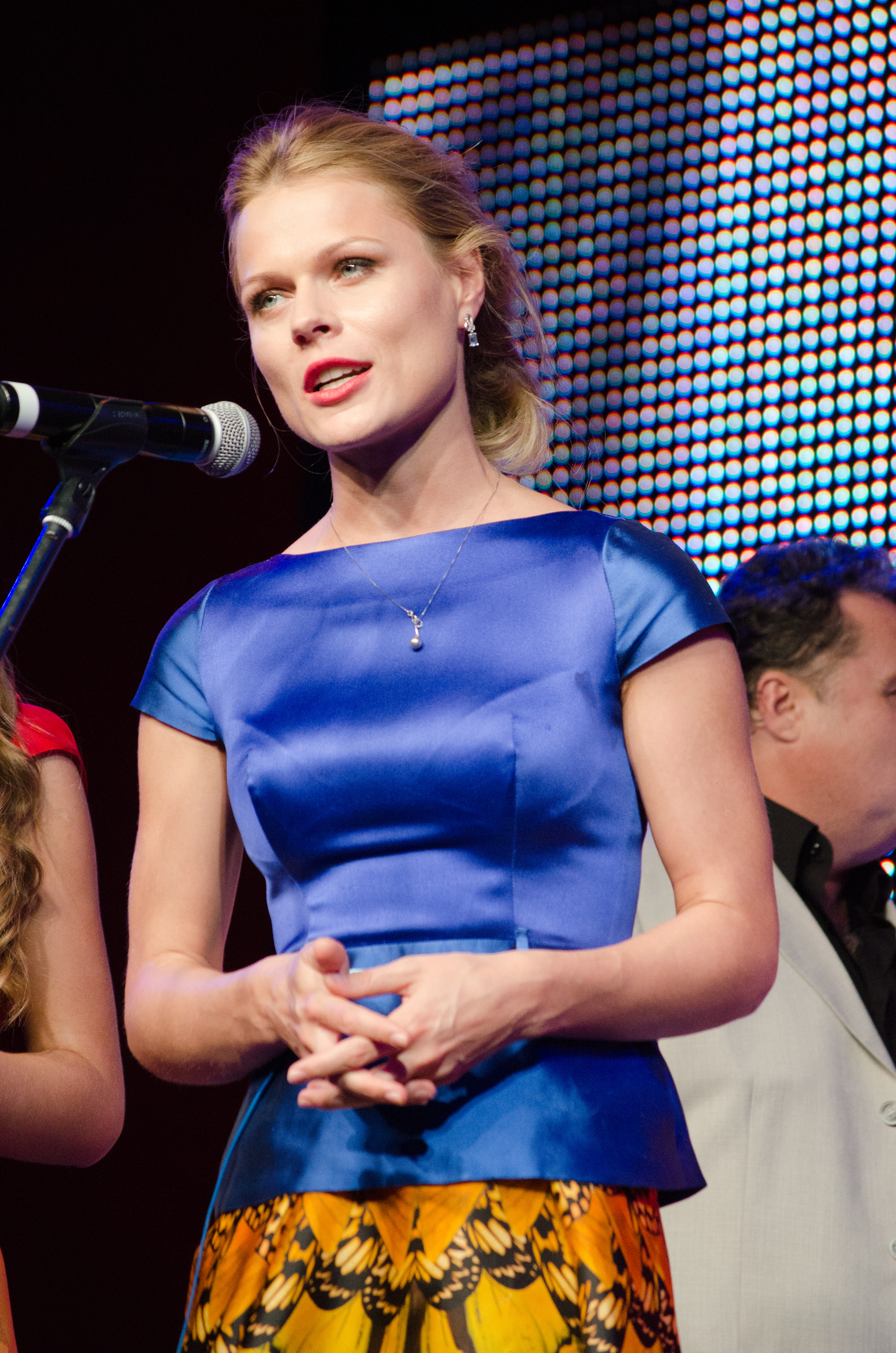 Koronatsiya Slova 2013 literature awards ceremony, Kiev, Ukraine